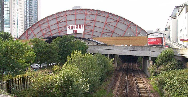 Green verges along the West London Line by Earls Court II